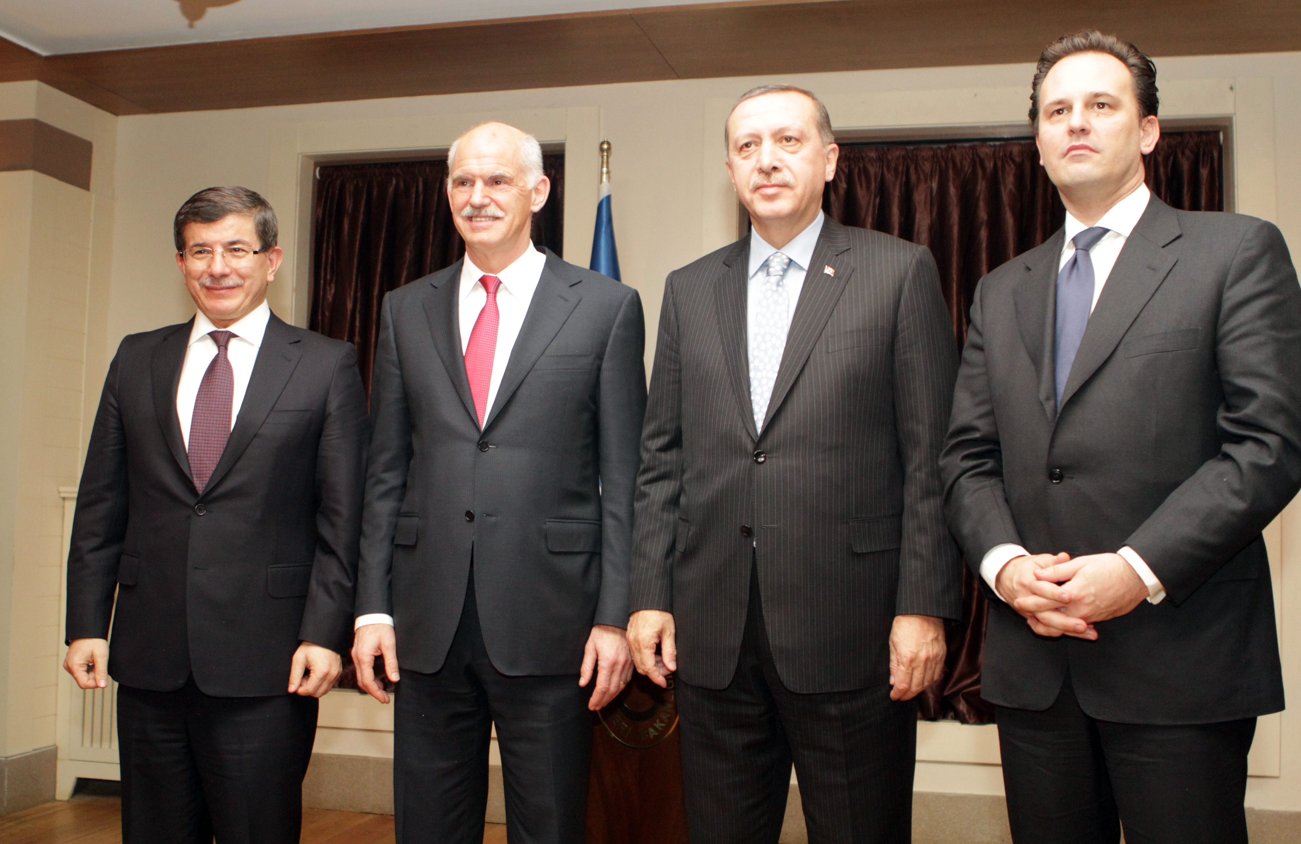 From left to right: Turkish FM Ahmet Davutoğlu, Greek Prime Minister George Papandreou and Turkish Prime Minister Recep Tayyip Erdoğan, Greek FM Dimitris Droutsas in Turkey.